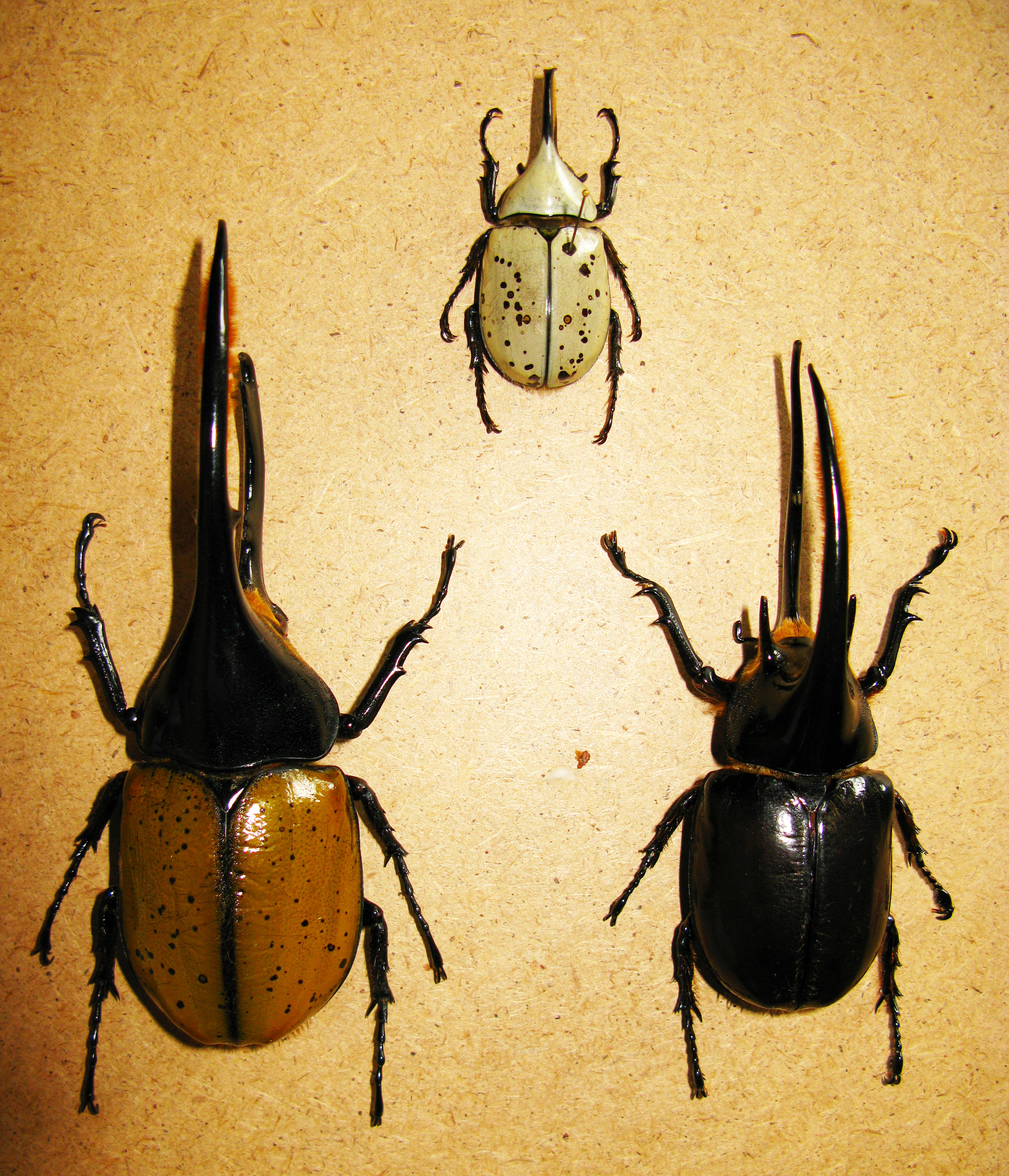 Dynastes hercules, Dynastes granti, Dynastes neptunus